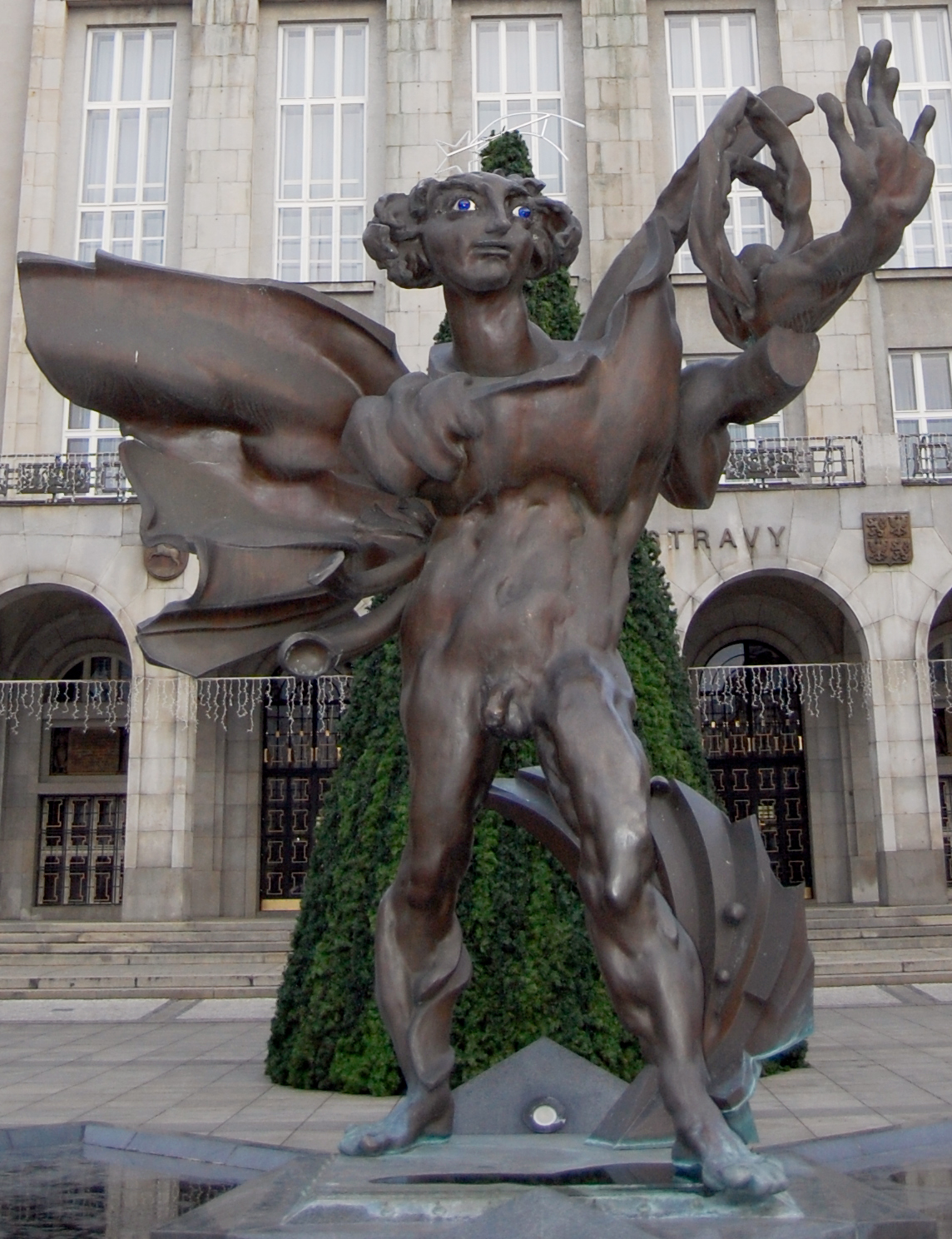 The statue of Icarus in the Prokes's square in Ostrava, Czech republic.